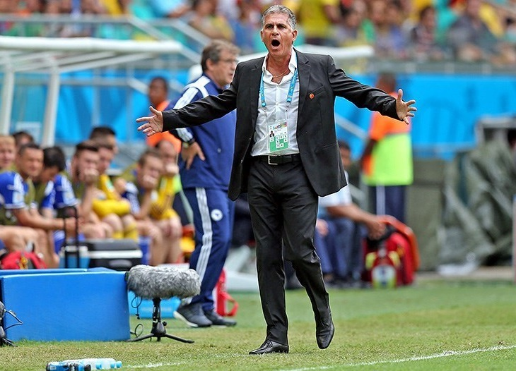 Bosnia and Herzegovina and Iran match at the FIFA World Cup